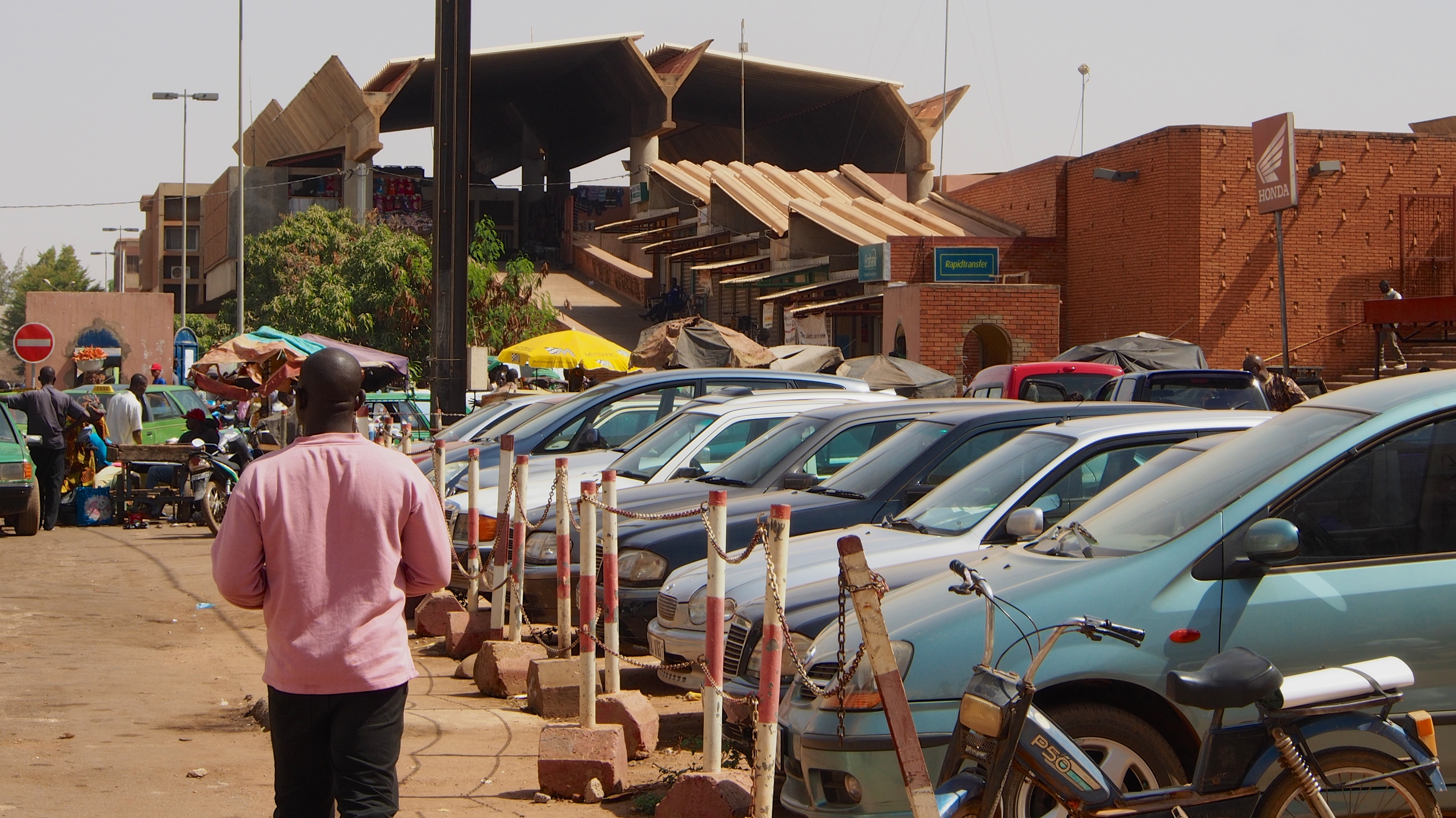 Rood Woko, central market of Ouagadougou, Burkina Faso